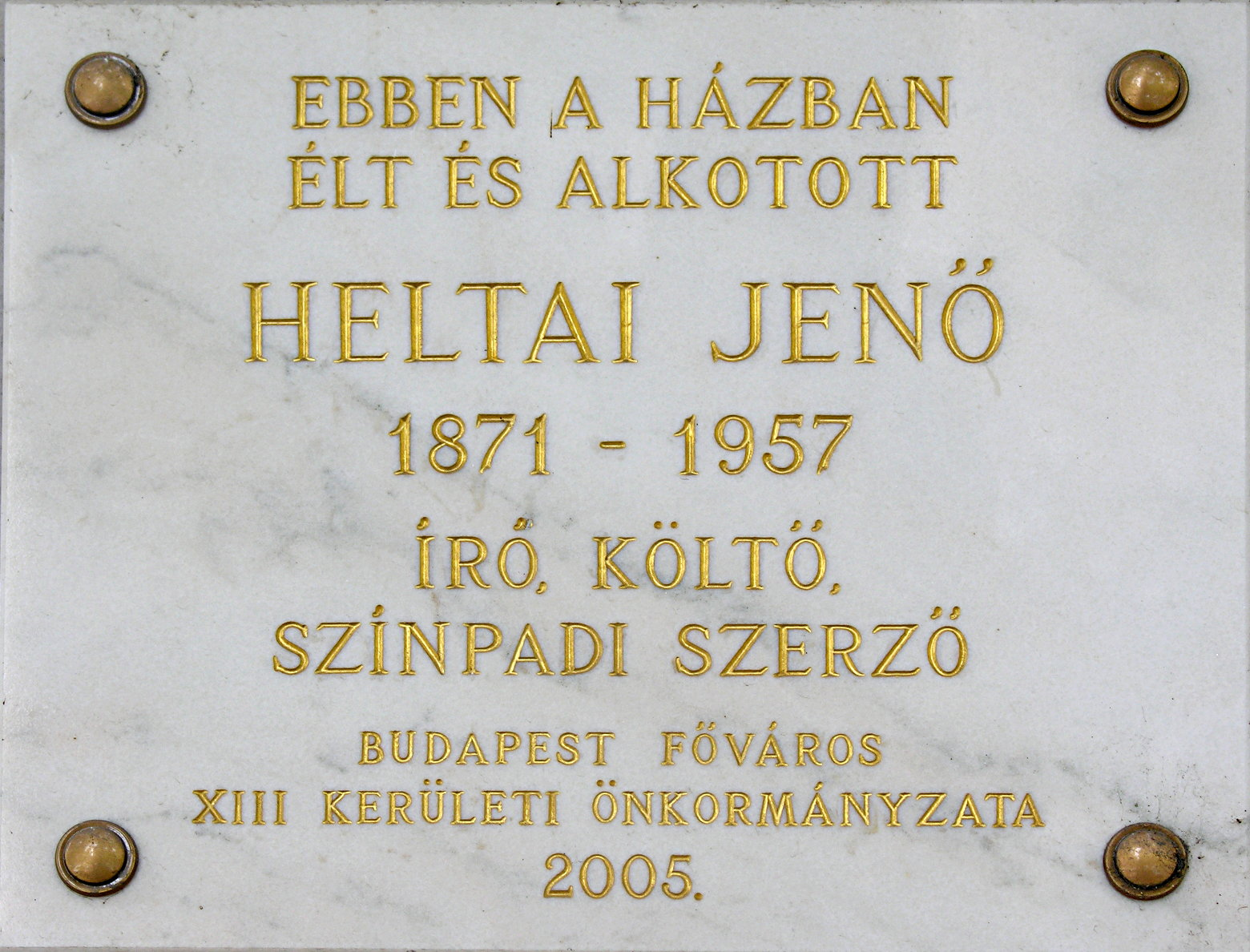 Commemorative plaque of Jenő Heltai, Budapest District XIII, Pozsonyi Street No 40